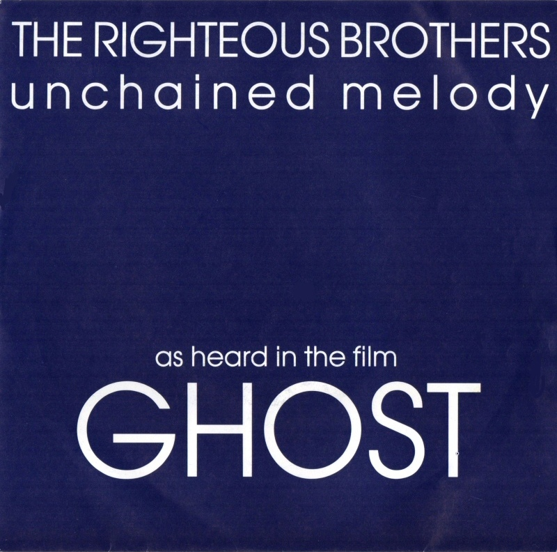 Front sleeve of the 1990 UK vinyl reissues of The Righteous Brothers' original 1965 recording of "Unchained Melody"